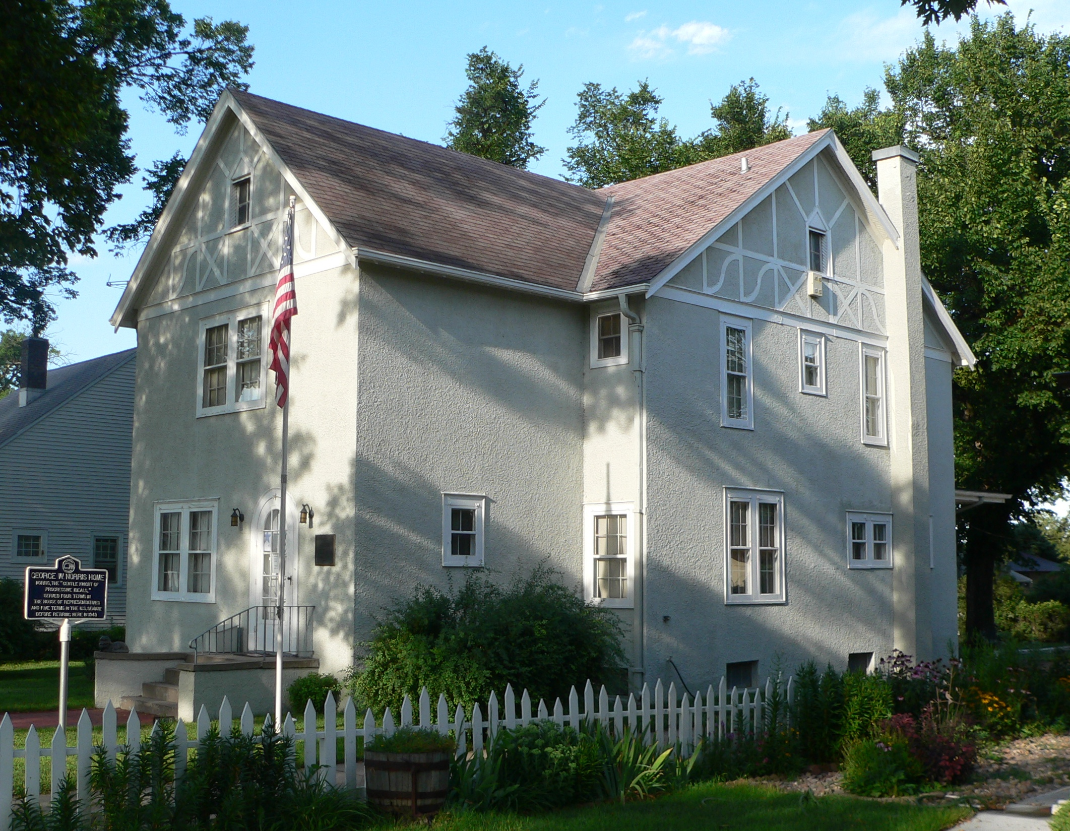 George W. Norris House in McCook, Nebraska; seen from the northeast. The house is listed in the National Register of Historic Places. It is now operated as a museum by the Nebraska State Historical Society.